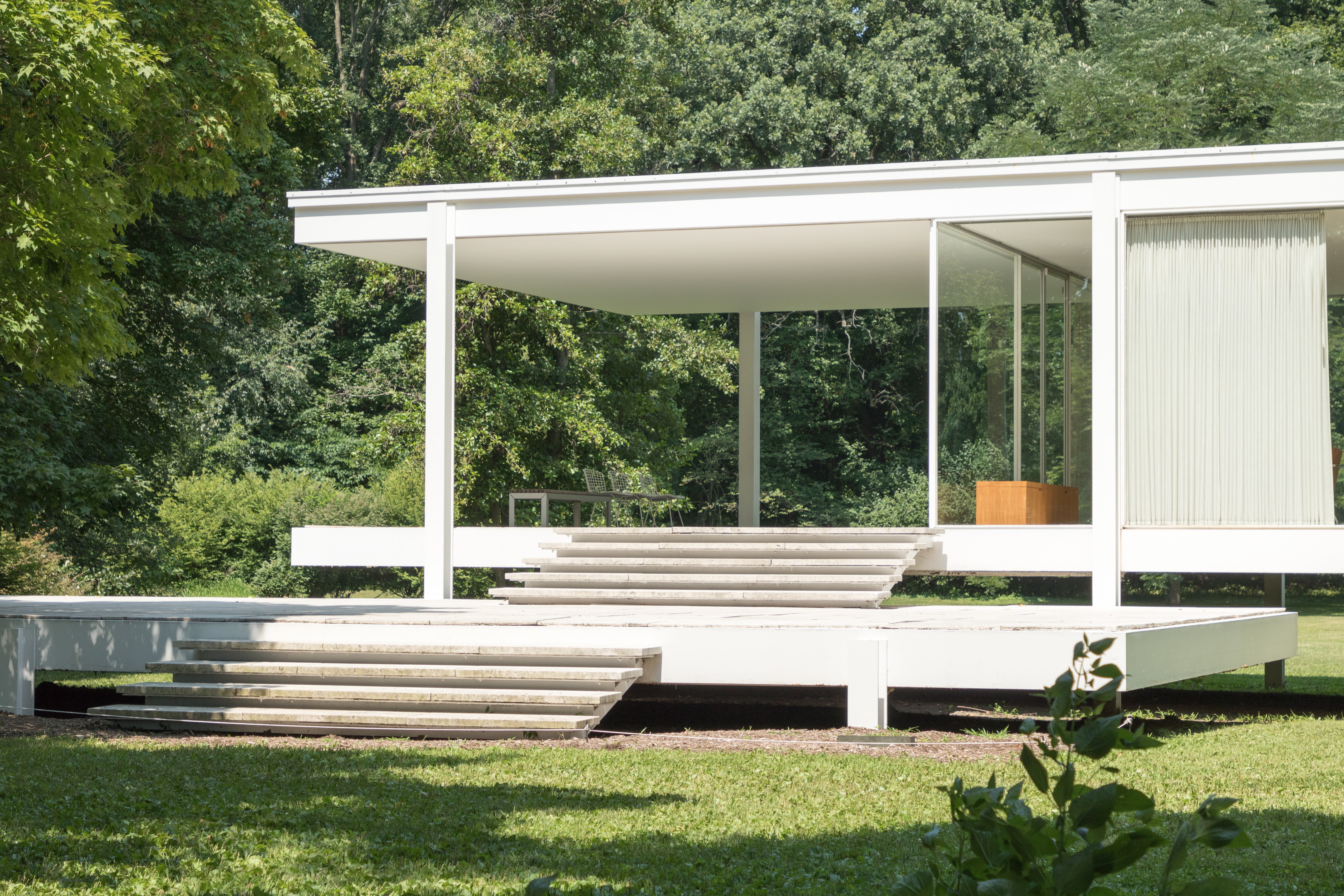 Farnsworth House, Plano, Illinois.